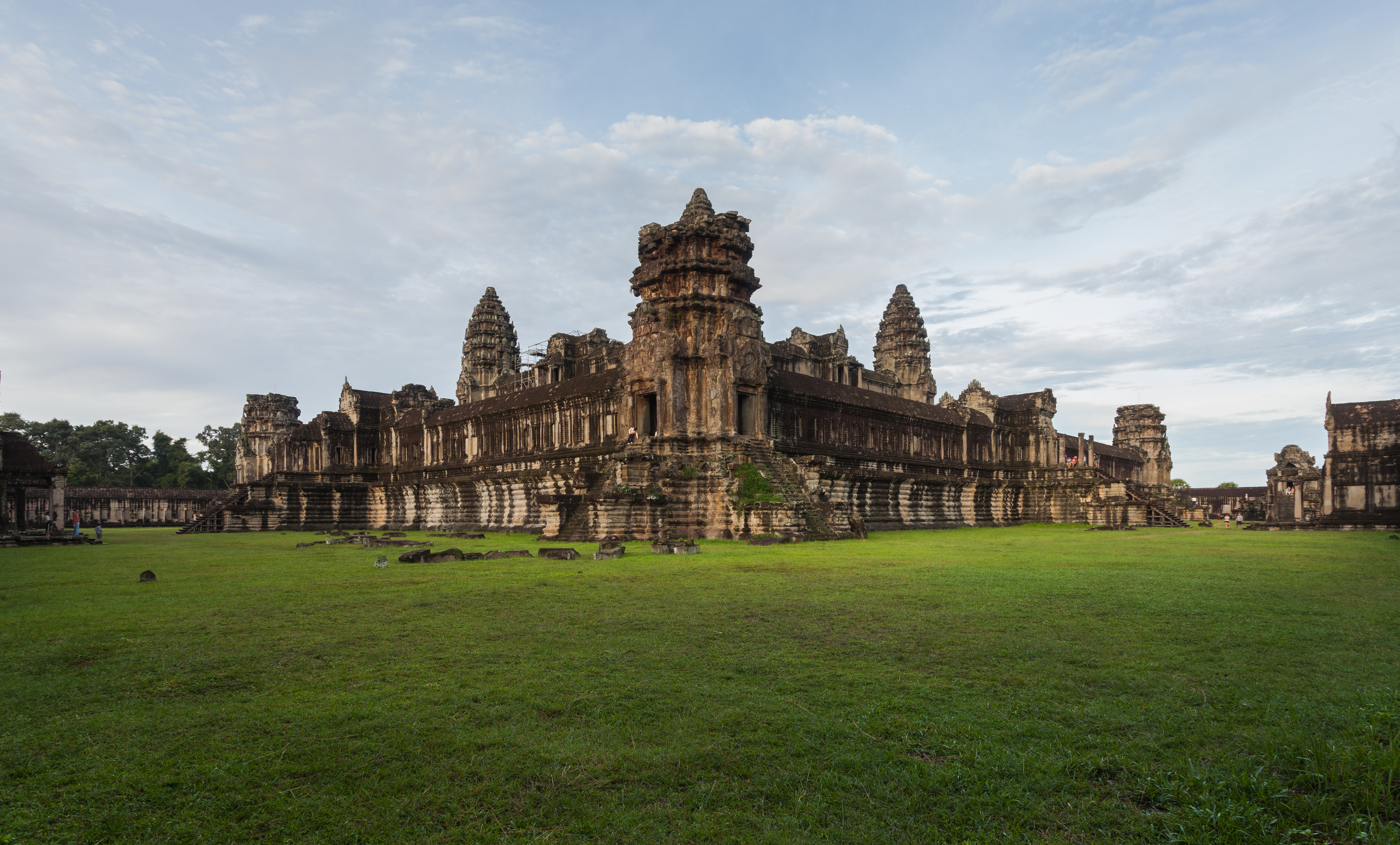 Angkor Wat, Cambodia